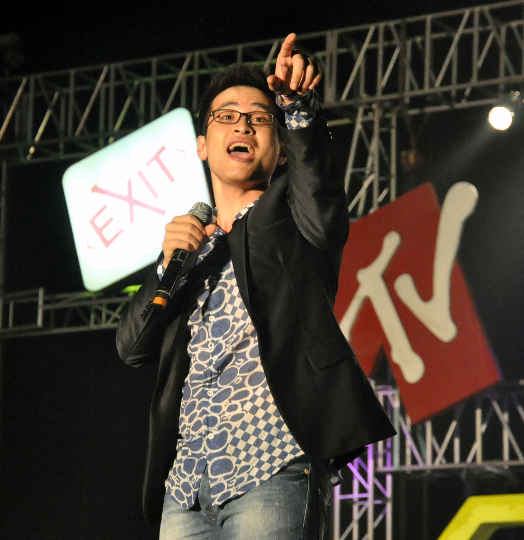 Halong Bay Concert, April 4, 2010; photo: USAID